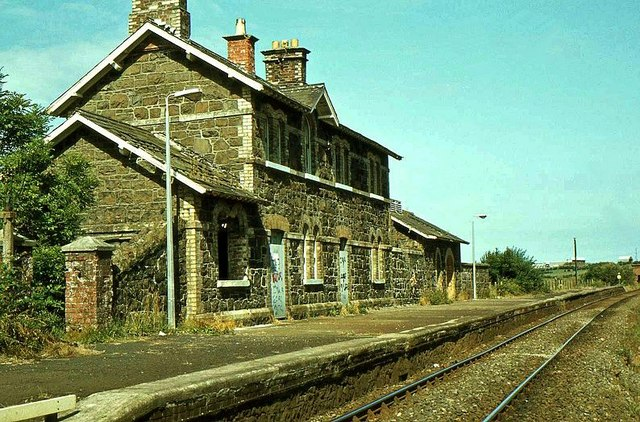 Cromore station near Portstewart (2). See 219758. Cromore station, at a time when it was open to passengers but the building was disused and in a sorry state.